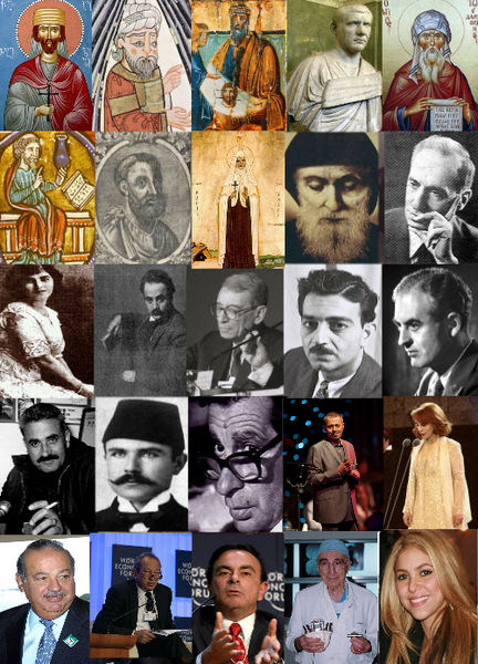 Collage of photos of Arab Christians known figures